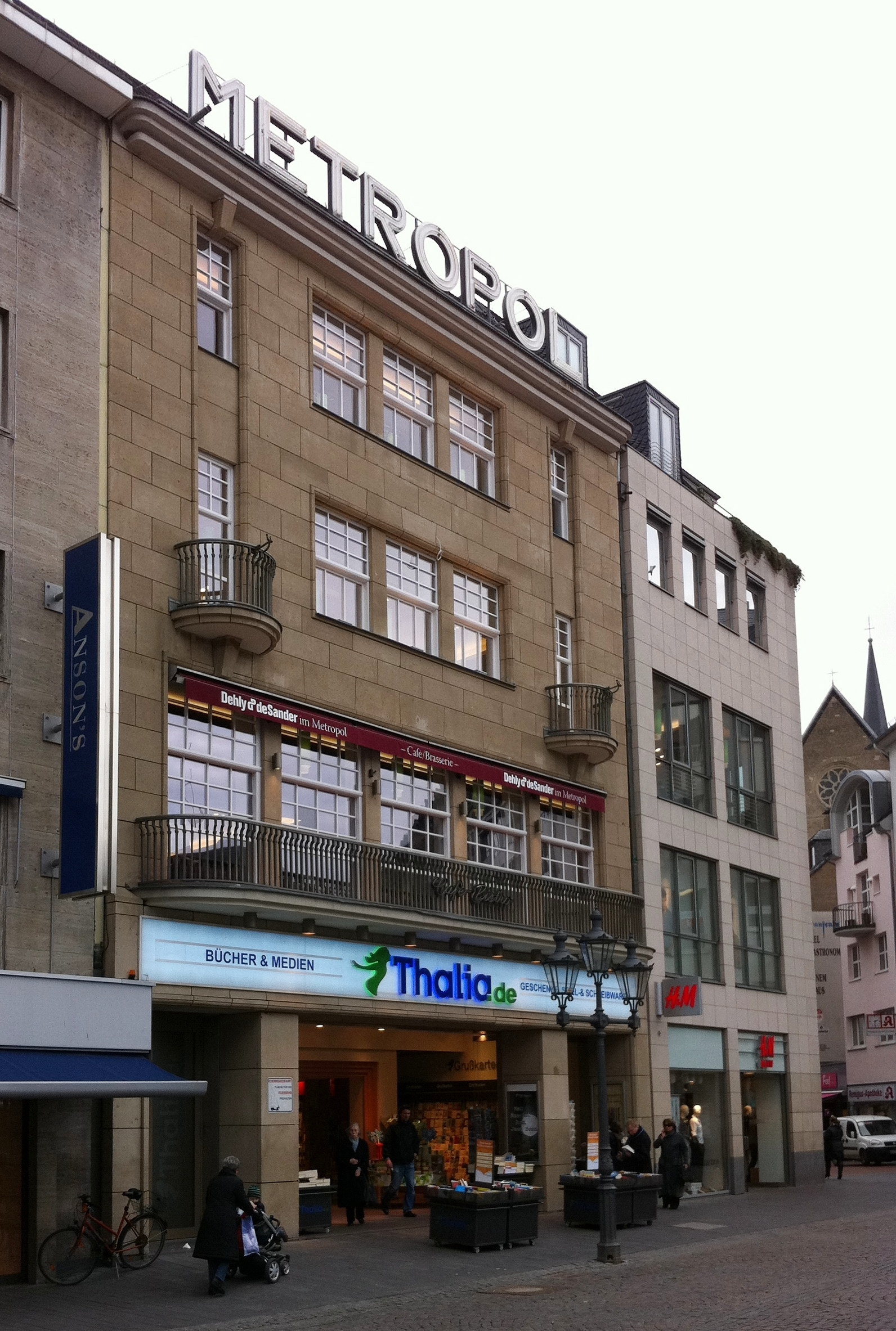 Germany, Bonn: former theater, later cinema -now bookshop- "Metropol" at market place.